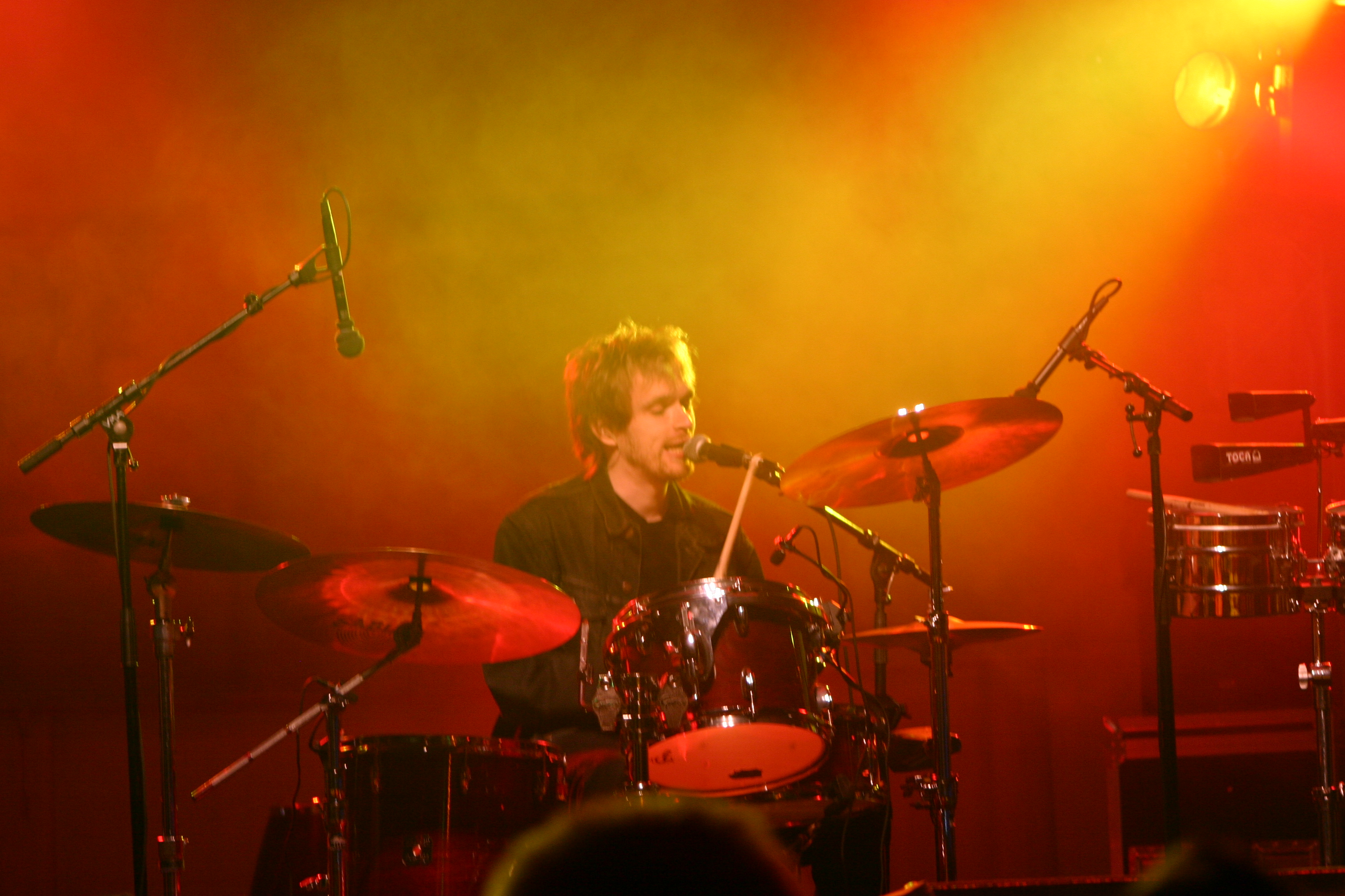 Anssi Kela playing drums in Vihreät Niityt music festival in the summer 2004.